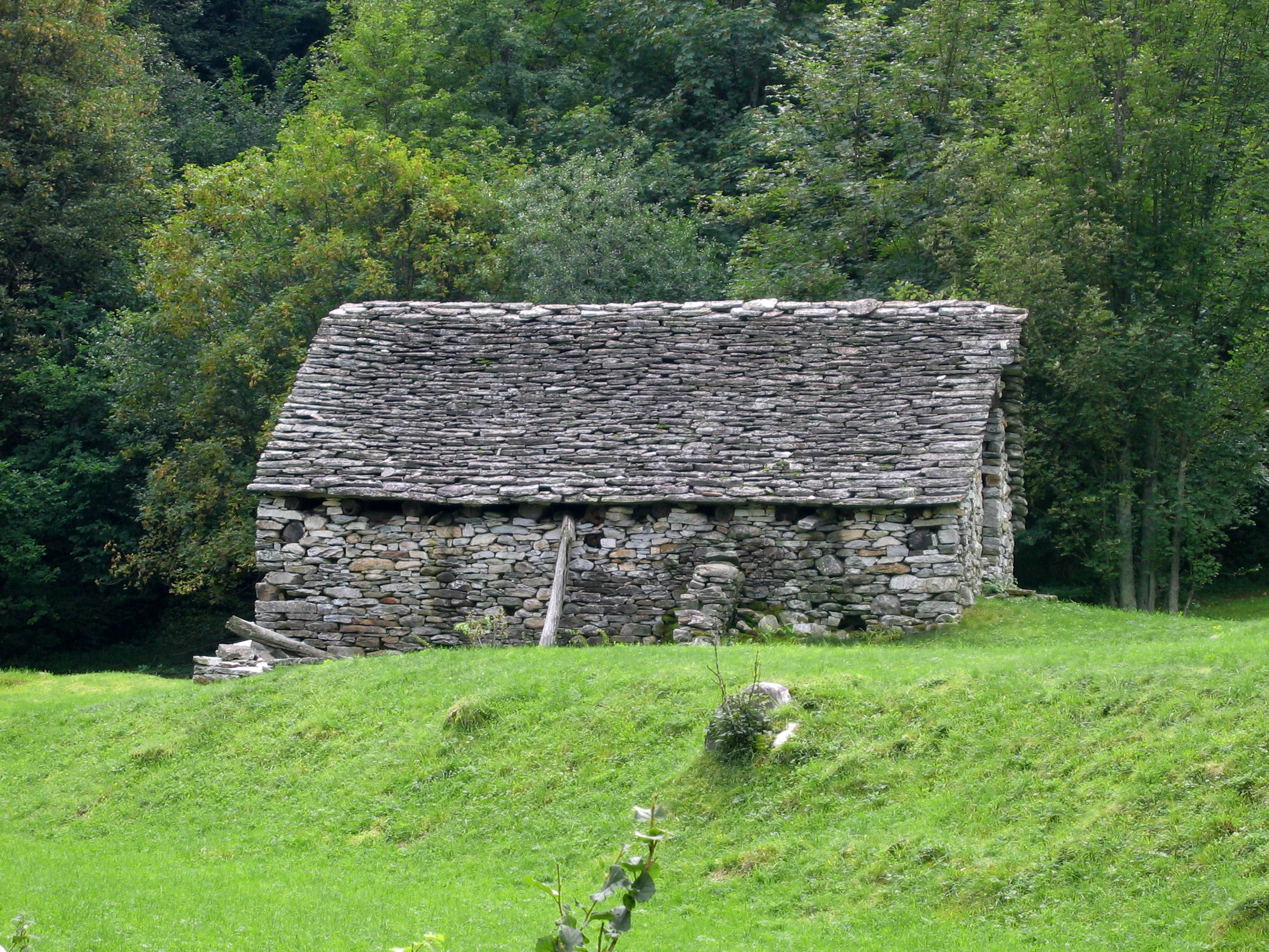 Stone house in Valle Verzasca, Switzerland. This kind of house is typical for the whole valley.